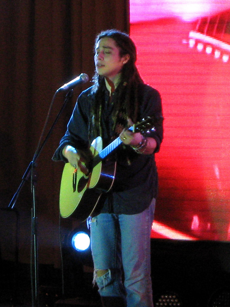 Jason Castro performing on tour to promote his first EP and album at Market! Market! in Bonifacio Global City, Taguig City, Metro Manila, Philippines on March 21, 2010.